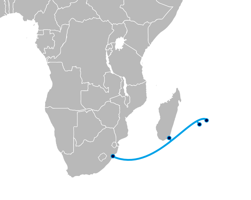 Cable sous-marin METISS